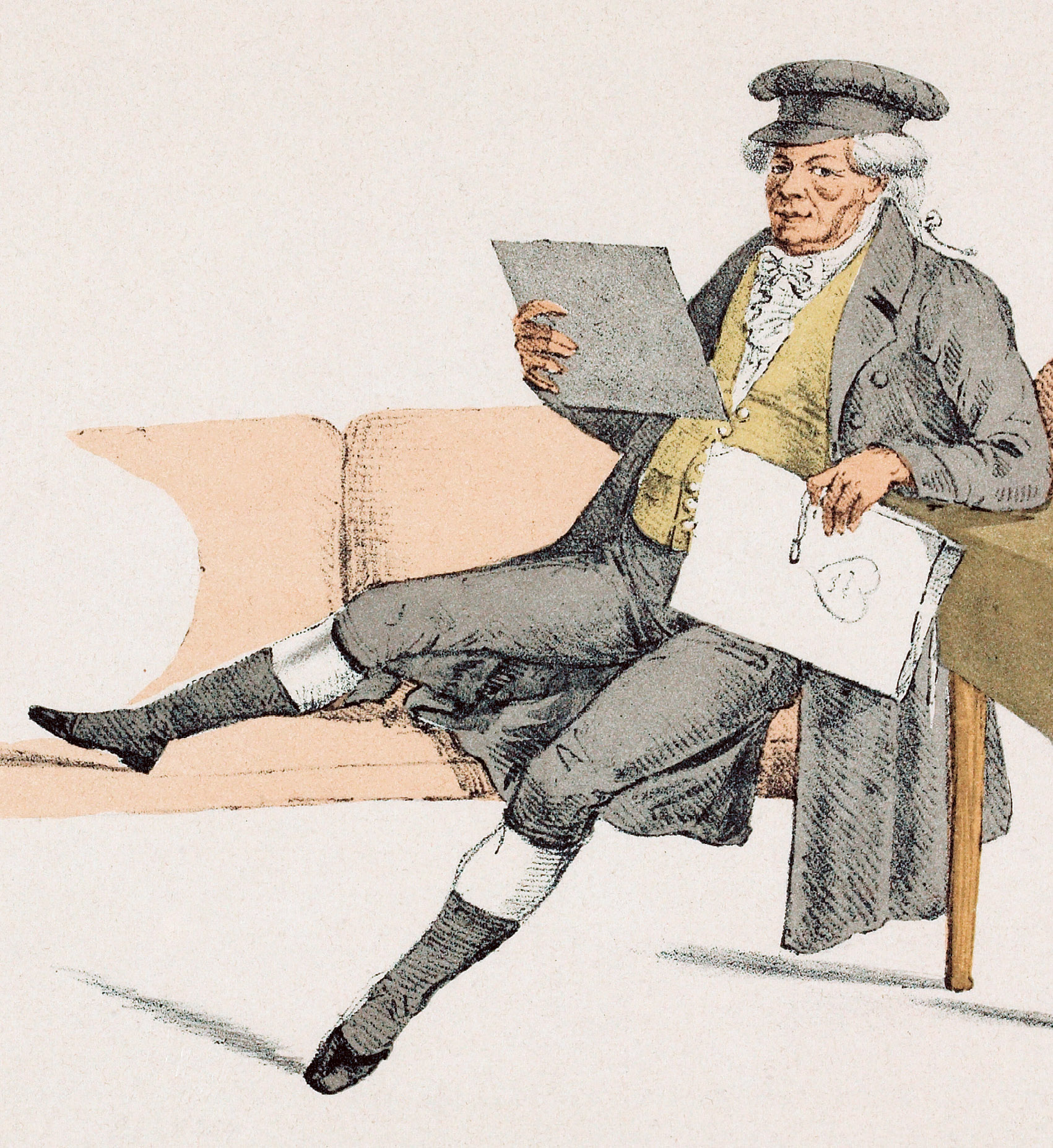 Sigmund von Wagner